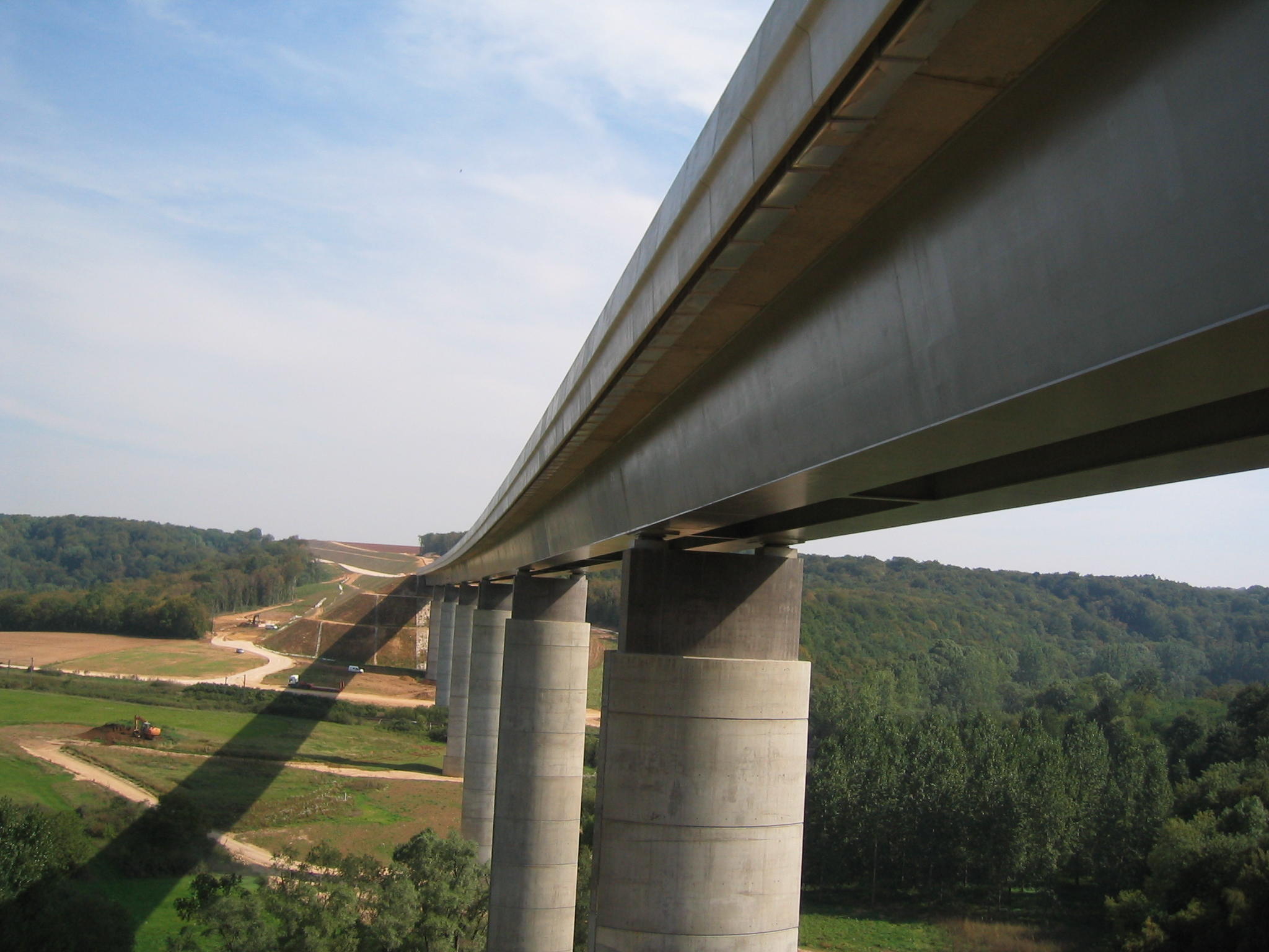 Railway bridge of the LGV Est européenne near Jaulny